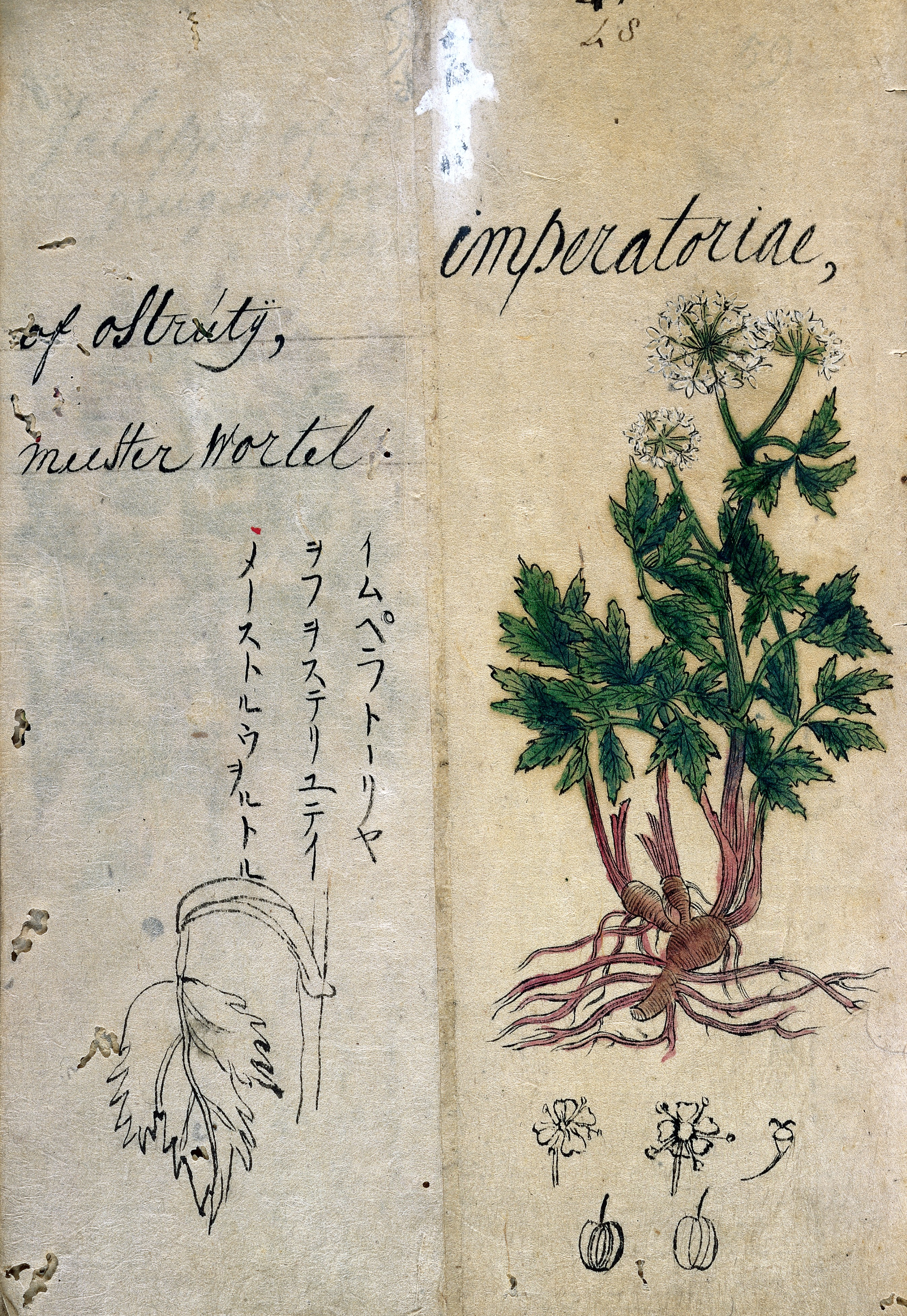 Contains various drawings of European plants with names/text in OldDutch, Chinese, Japanese & Latin. Illustration 48. Asian Collection